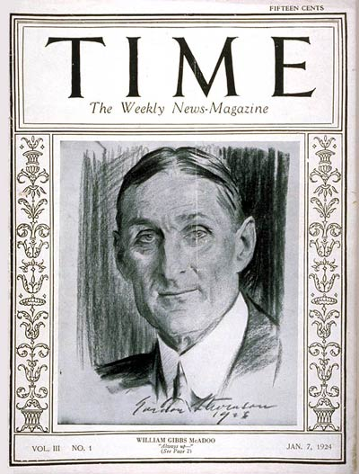 TIME Magazine Cover of William Gibbs McAddo (7 Jan 1924)